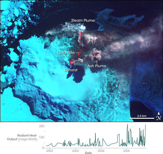 False-color image of the ongoing eruption of Mount Belinda in the South Sandwich Islands. Red indicates hot areas, blue indicates snow, white indicates steam, and gray indicates volcanic ash.